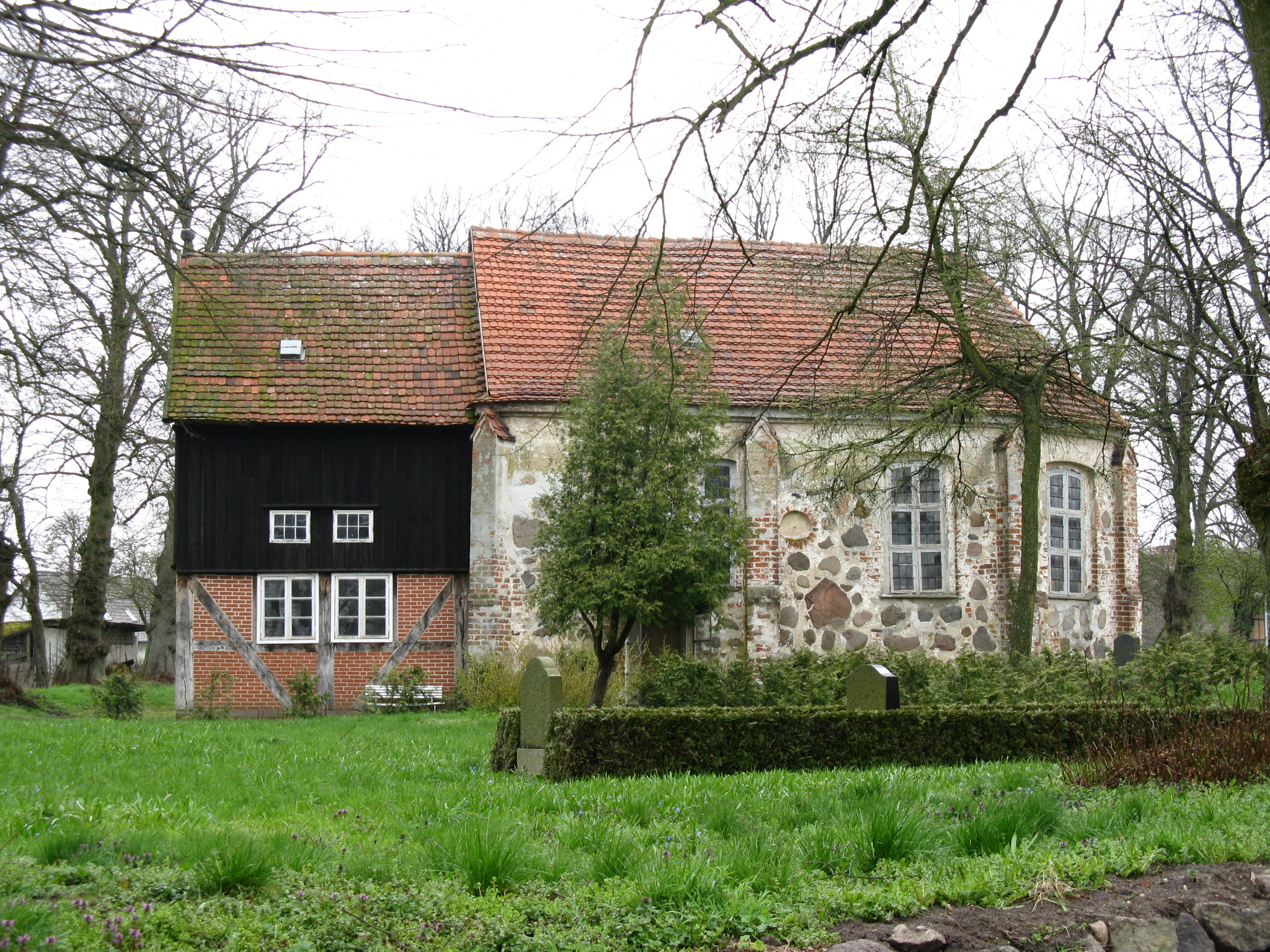 Church in Dütschow, district Ludwigslust-Parchim, Mecklenburg-Vorpommern, Germany